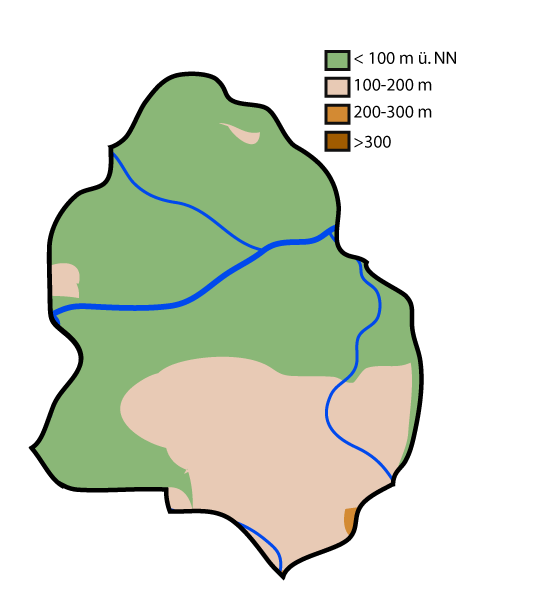 Topographical map of Löhne (Germany)